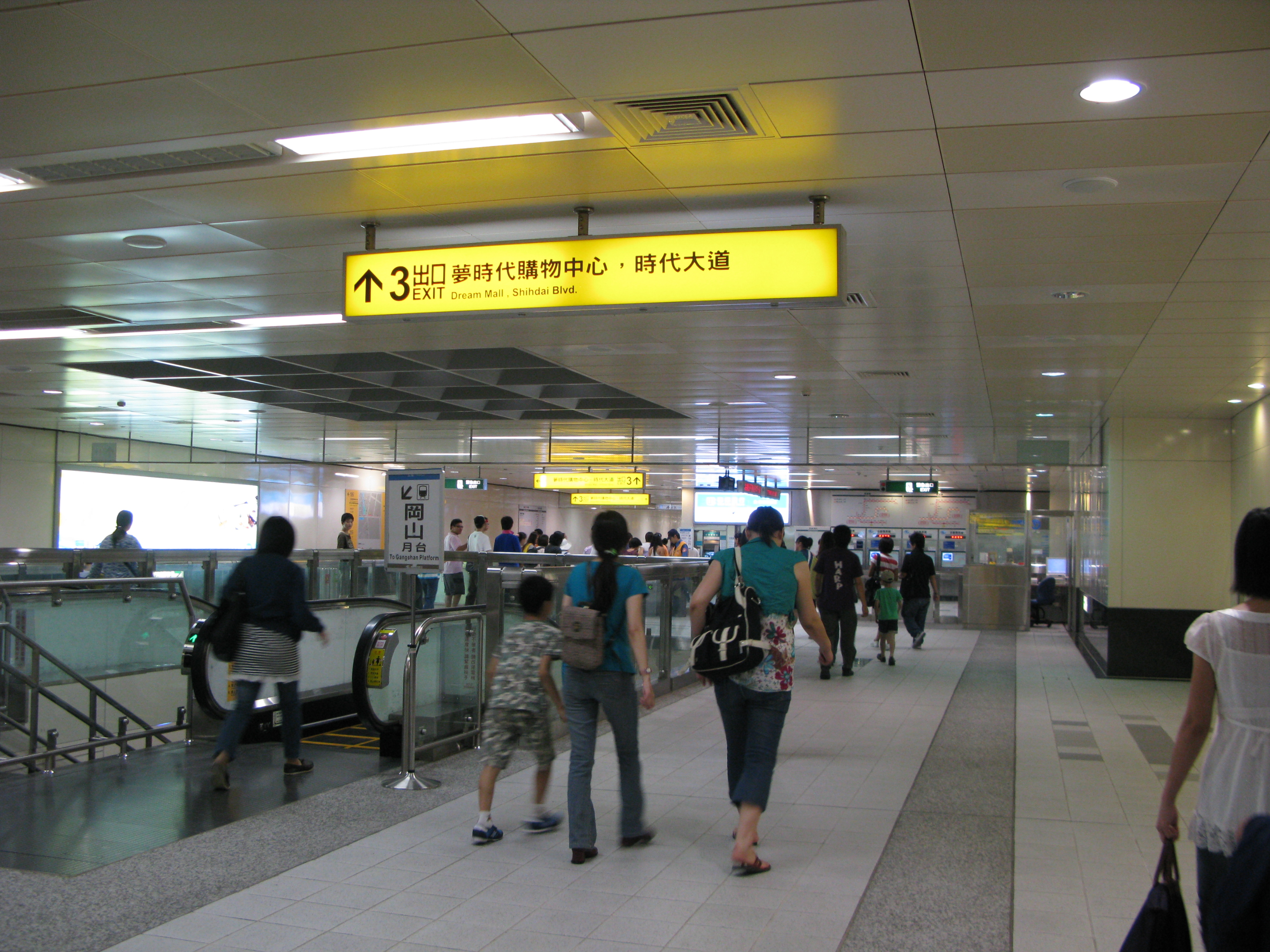 Kaohsiung MRT Kaisyuan Station